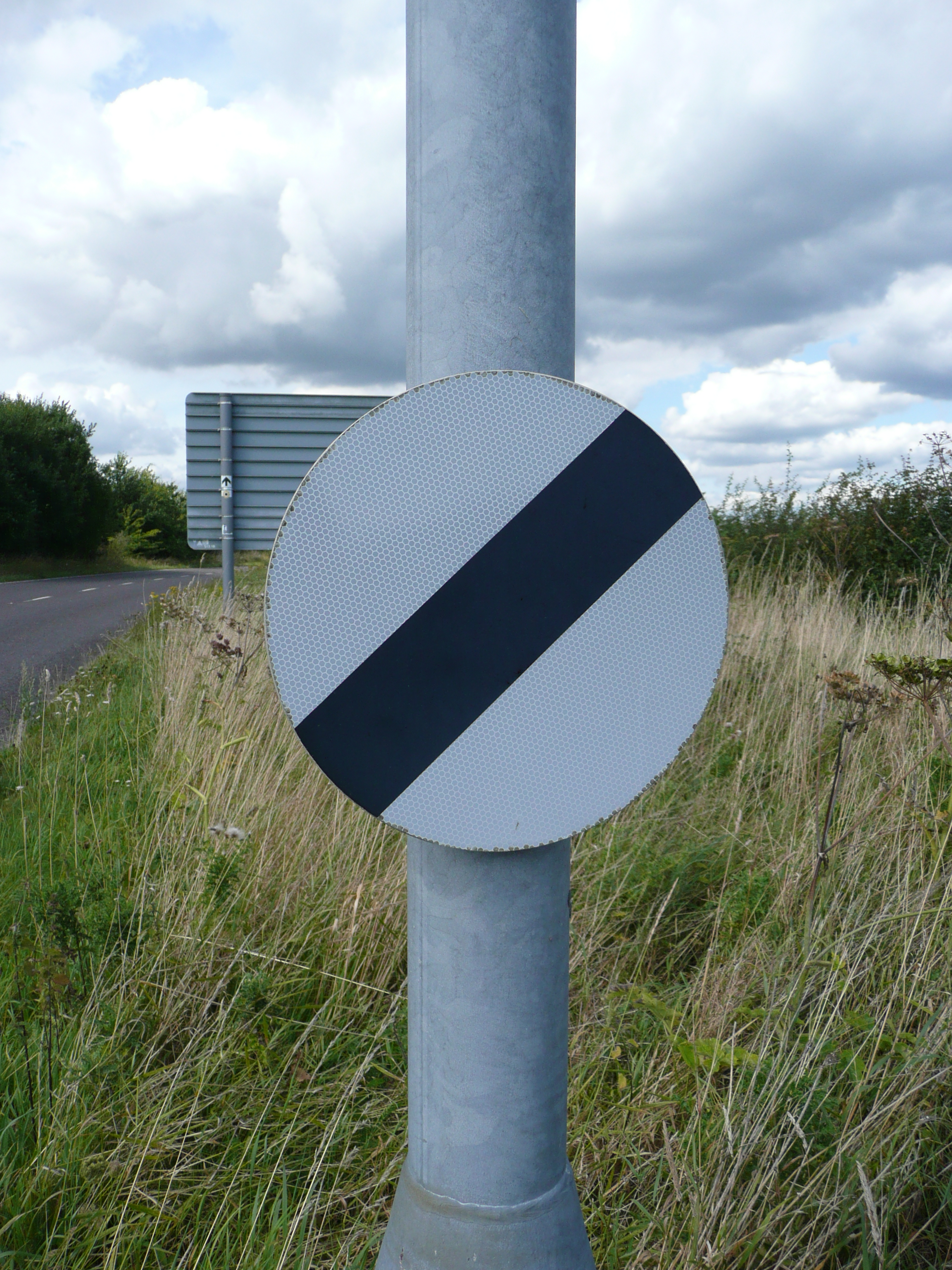 A national speed limit reminder (repeater) road sign on a road within the United Kingdom. Usually only used when there is sufficient street lighting for a road to be legally classified as within a built-up area, meaning it would have an automatic 30 mph (48 km/h) speed limit, unless signed otherwise, as in this case. This example was photographed in Liss, Hampshire, England.